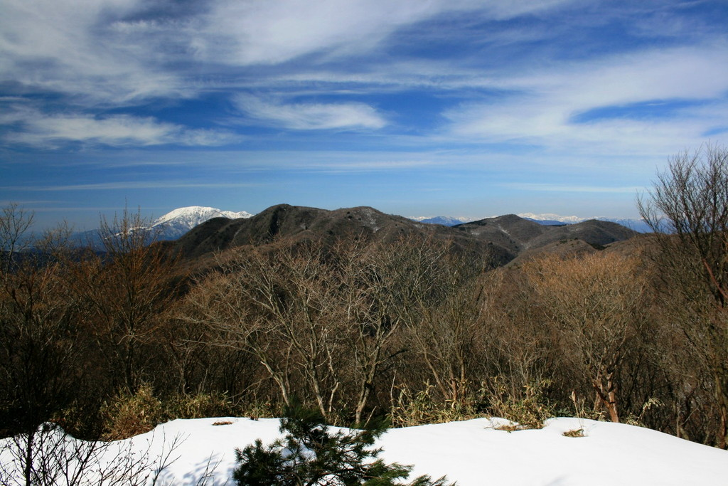 View_from_Yorosan_woodland_path ; Mount Ibuki Syougatake etc